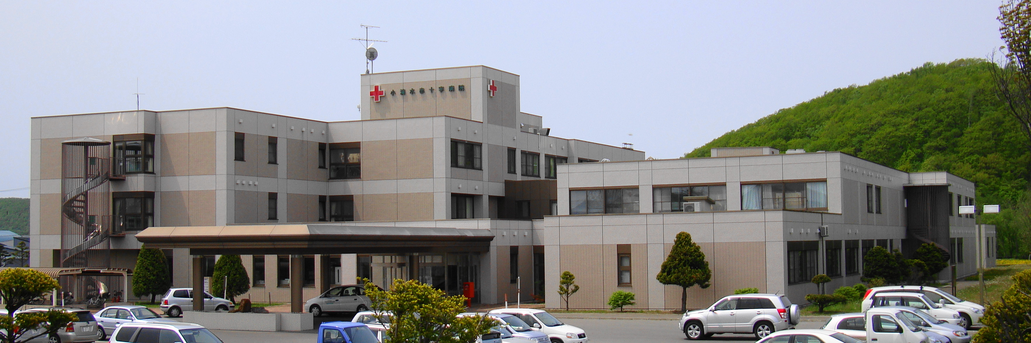 Koshimizu Red Cross Hospital